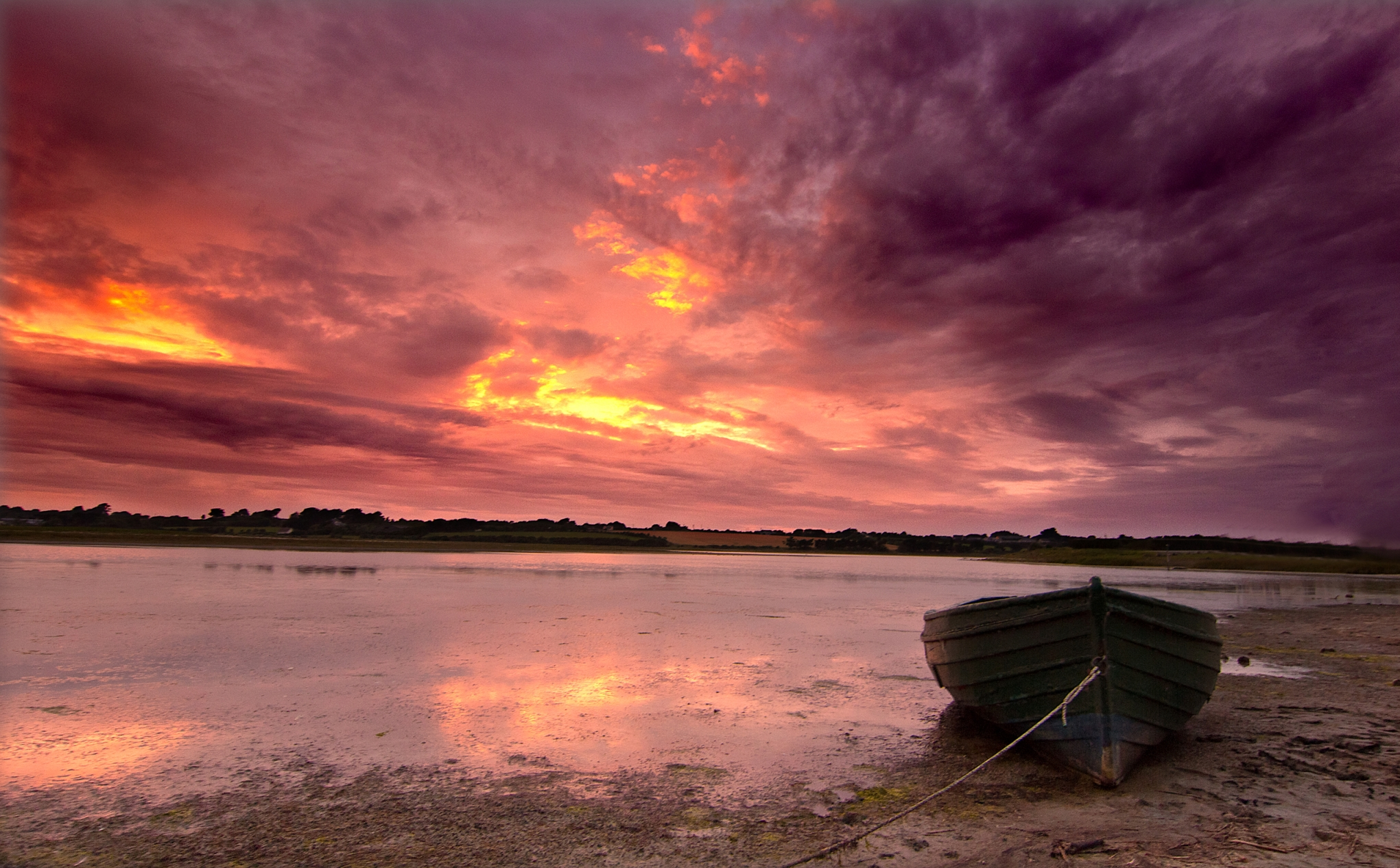 A view of Lady's Island Lake, in County Wexford, Ireland at sunset.